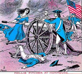 Molly Pitcher, cropped from 1905 sheet music cover